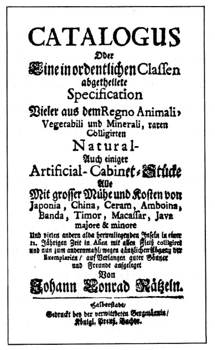 Title of J.C. Raetzel's Catalogue